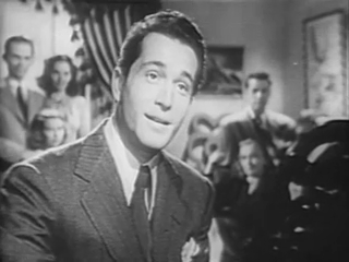 Perry Como performs "Here Comes Heaven Again" in the 1946 film Doll Face